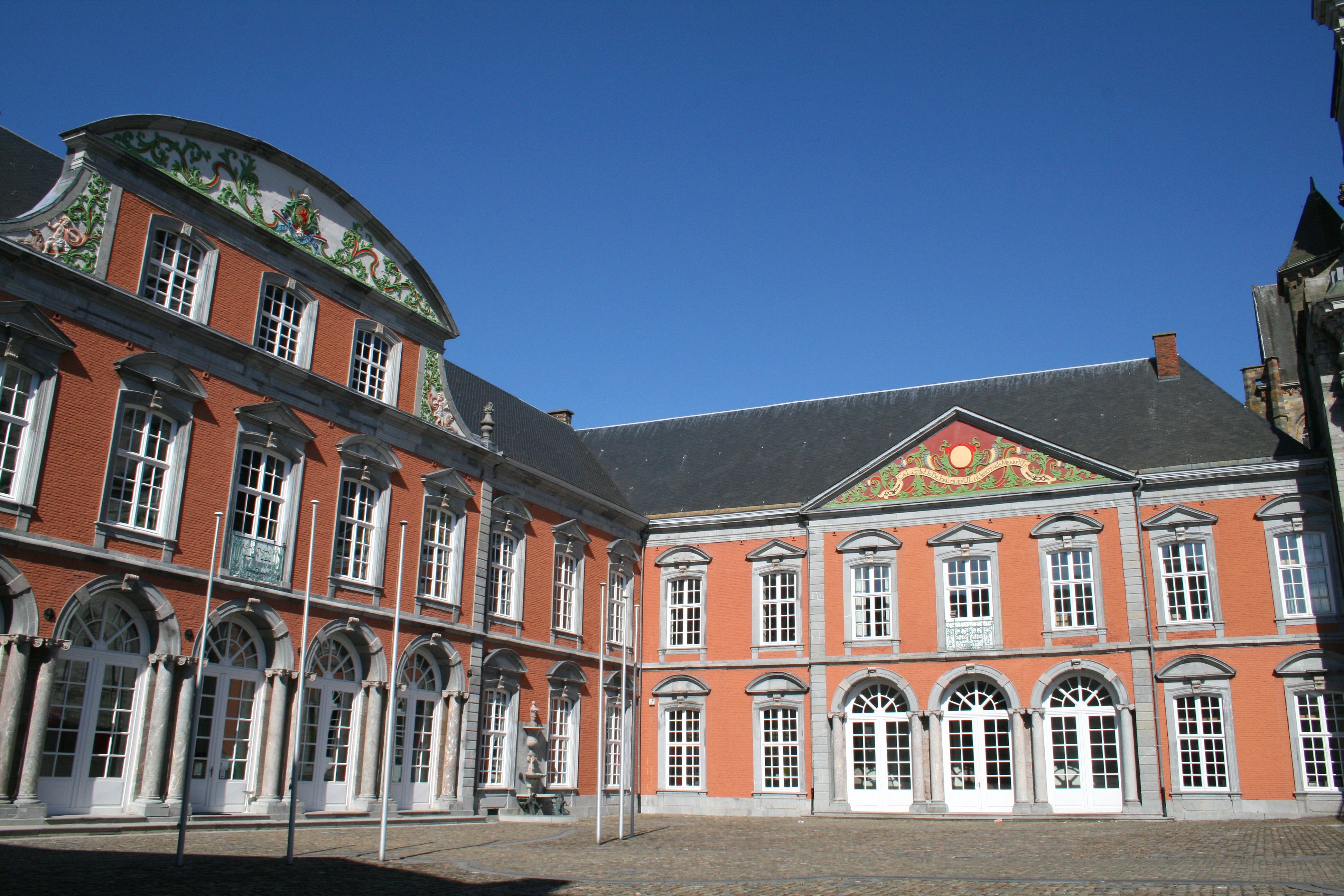 Previous Abbey palace (1729-1731) of Saint-Hubert (Belgium).